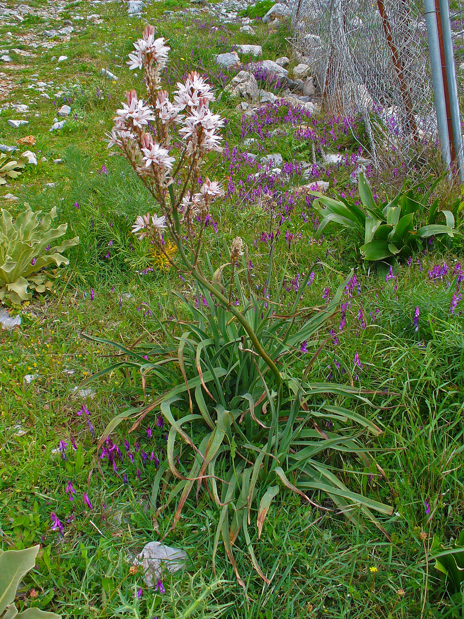 Asphodelus ramosus, Asphodelaceae, Branched asphodel, habitus; Ambelos Afhin, Crete, Greece. The plant is used in homeopathy as remedy: Asphodelus albus (Asph-r.)